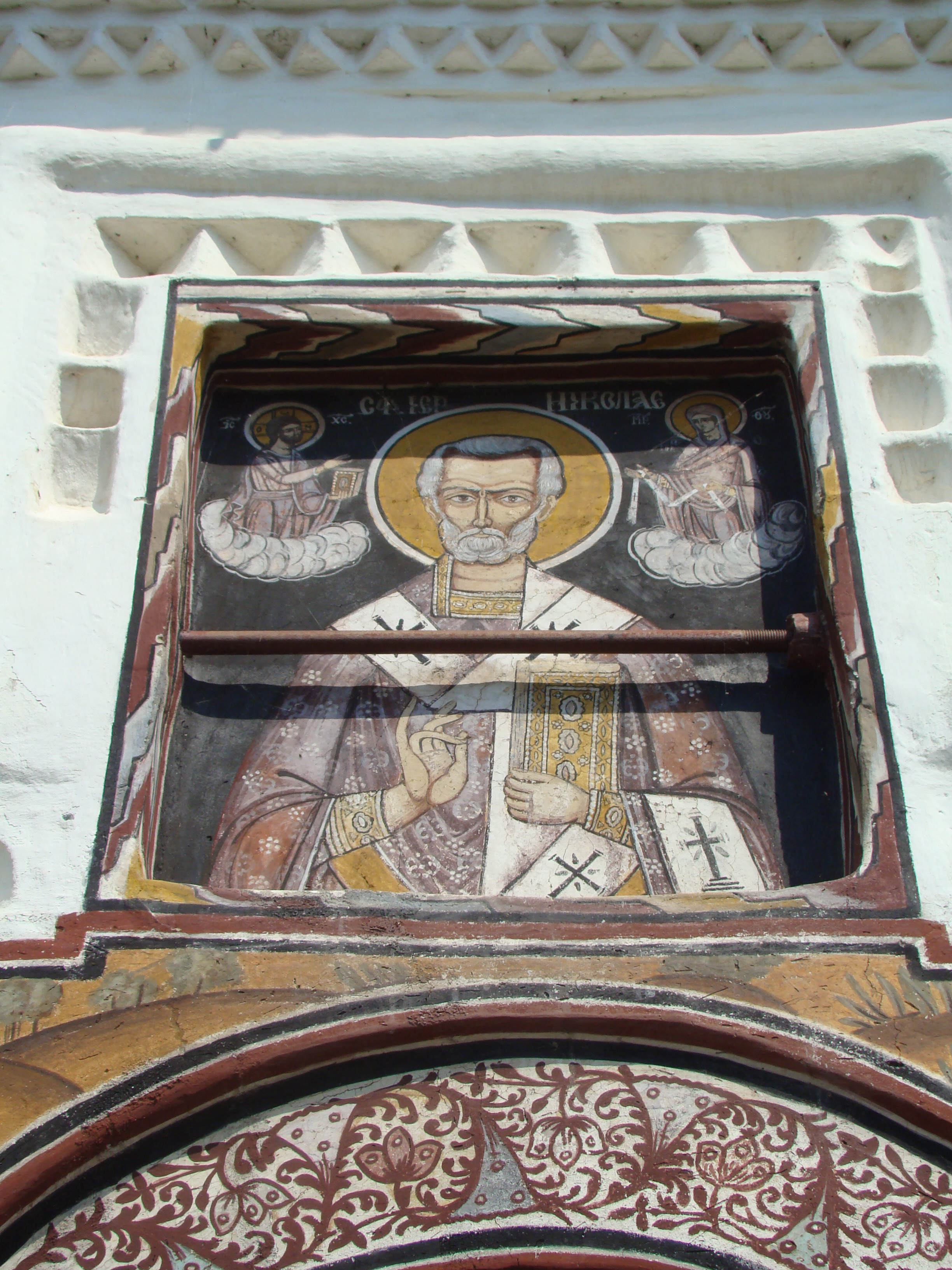 Saint Nicholas church in Olănești, Vâlcea county, Romania